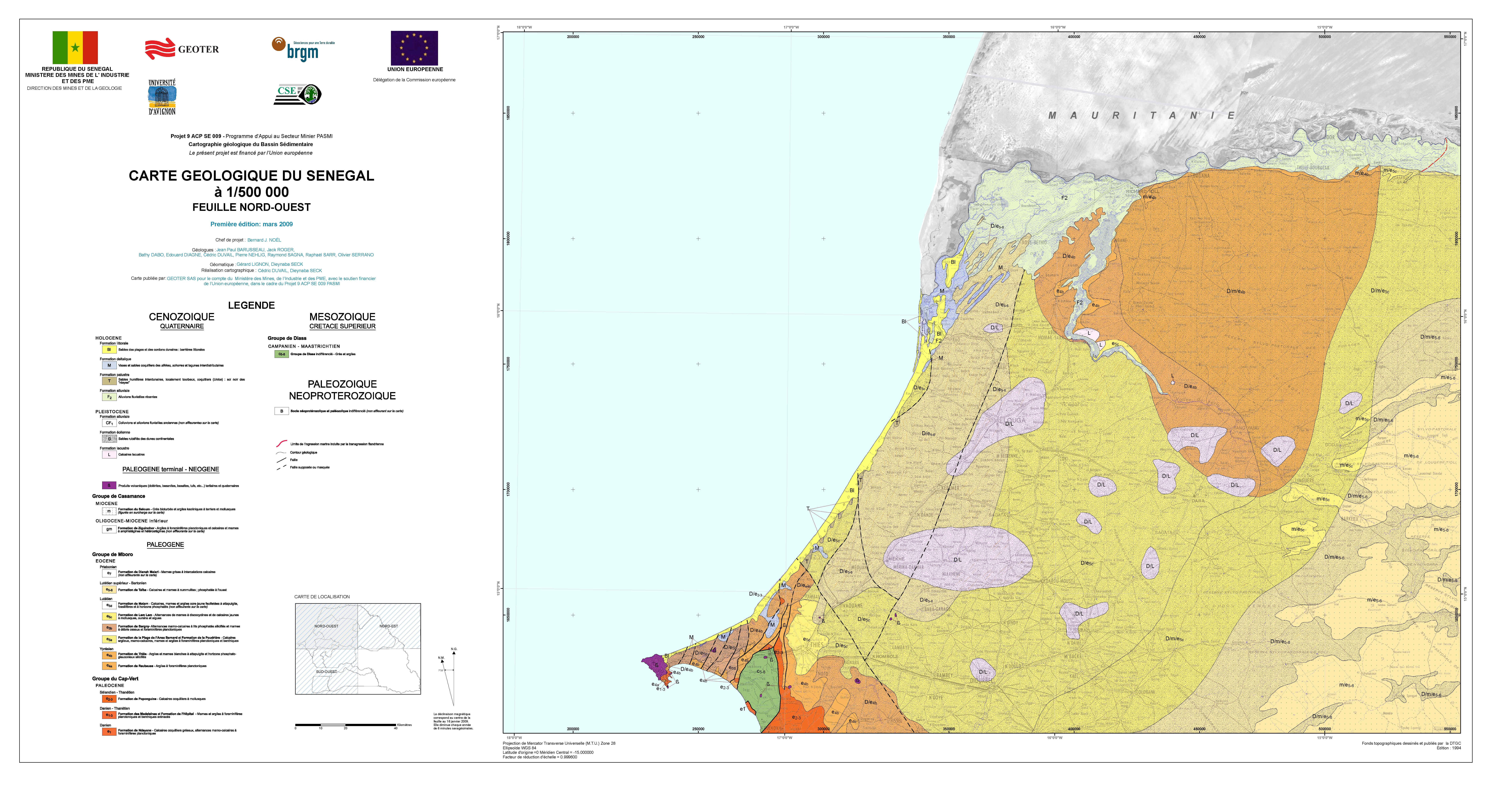 geological map of Senegal: 1/500 000, North-East